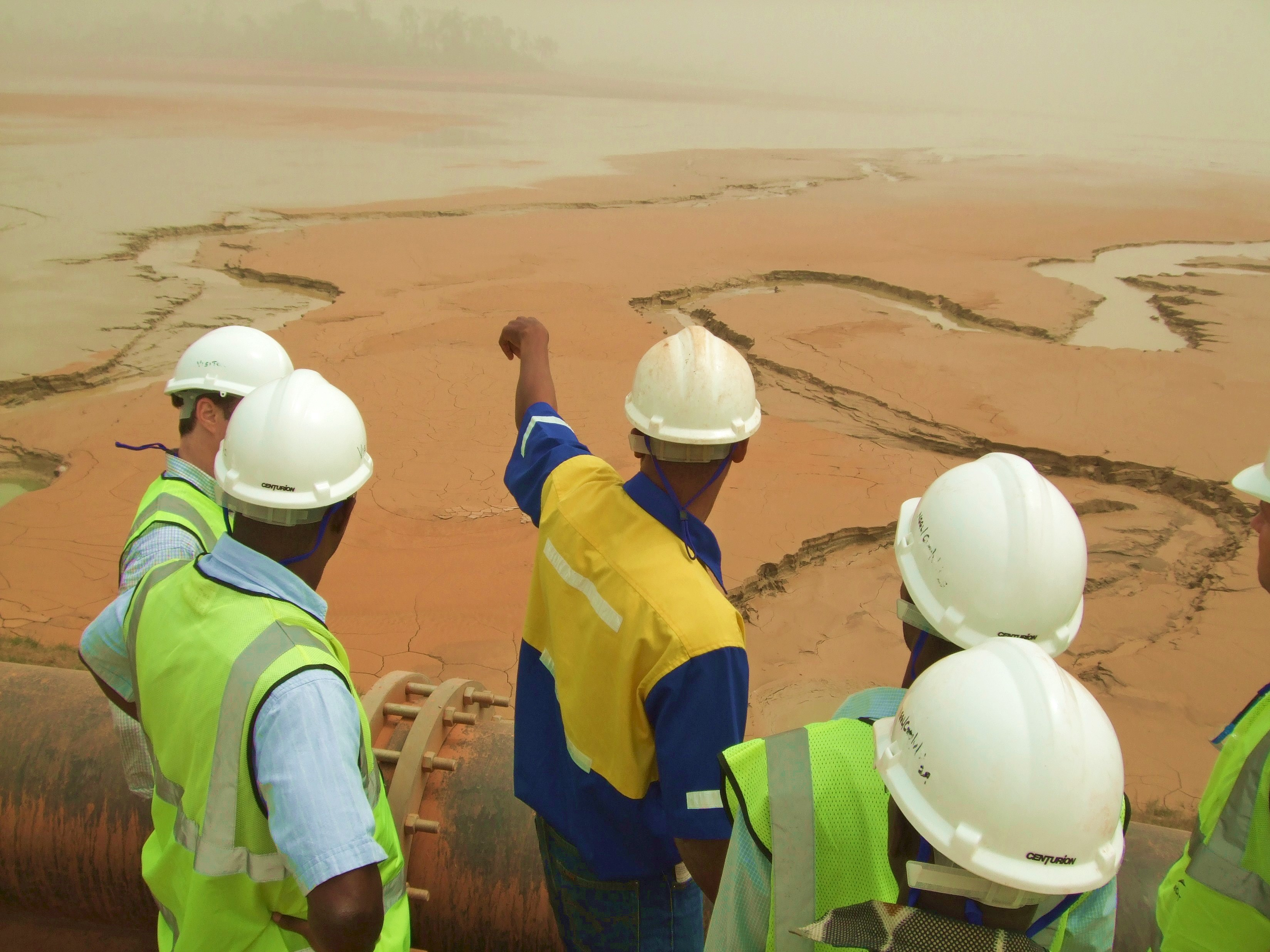 Visit of an EITI commission 2008 in Ghana: The commission eyes up the collecting reservoir for the free sand water which is applied at the mining process of the gold ore. (image 002)